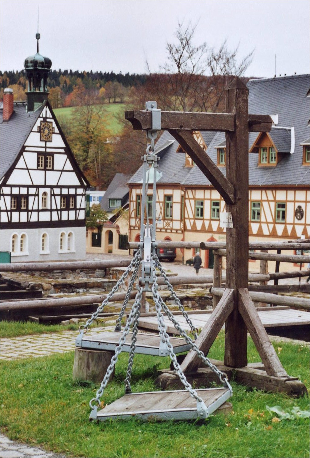 This image shows a old arch-balance used in the former copperworks in Olbernhau-Grünthal in the Ore Mountains, Saxony, Germany.